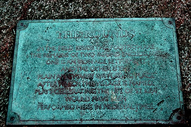 Plaque at Playing Place THE ROUNDS IN THE FIELD BESIDE THIS FOOTPATH ARE THE REMAINS OF TWO ROUND ENCLOSURES ONE IS AN IRONAGE SETTLEMENT AND THE OTHER IS THE PLAIN-AN-GWARRY OR PLAYING PLACE AFTER WHICH THIS VILLAGE IS NAMED PLAYS CELEBRATING THE LIFE OF ST KEA WOULD HAVE BEEN PERFORMED HERE IN MEDIEVAL TIMES